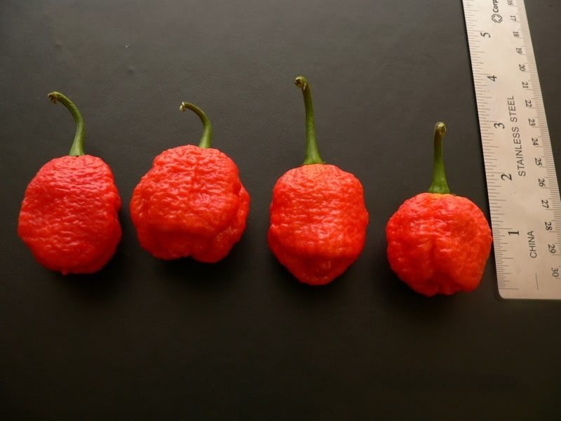 Trinidad Scorpion "Moruga Blend" (C. Chinense) 8/30/10